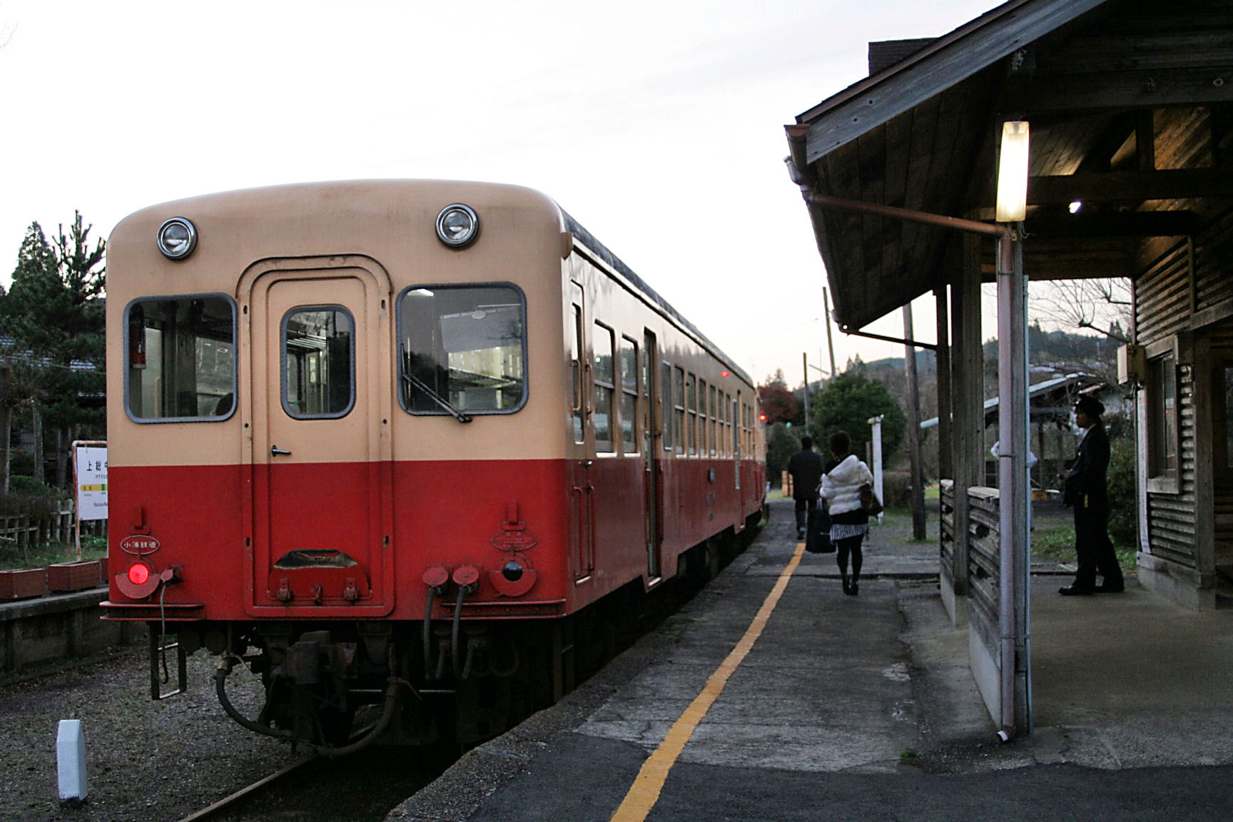 Kominato line train in Kazusanakano station.